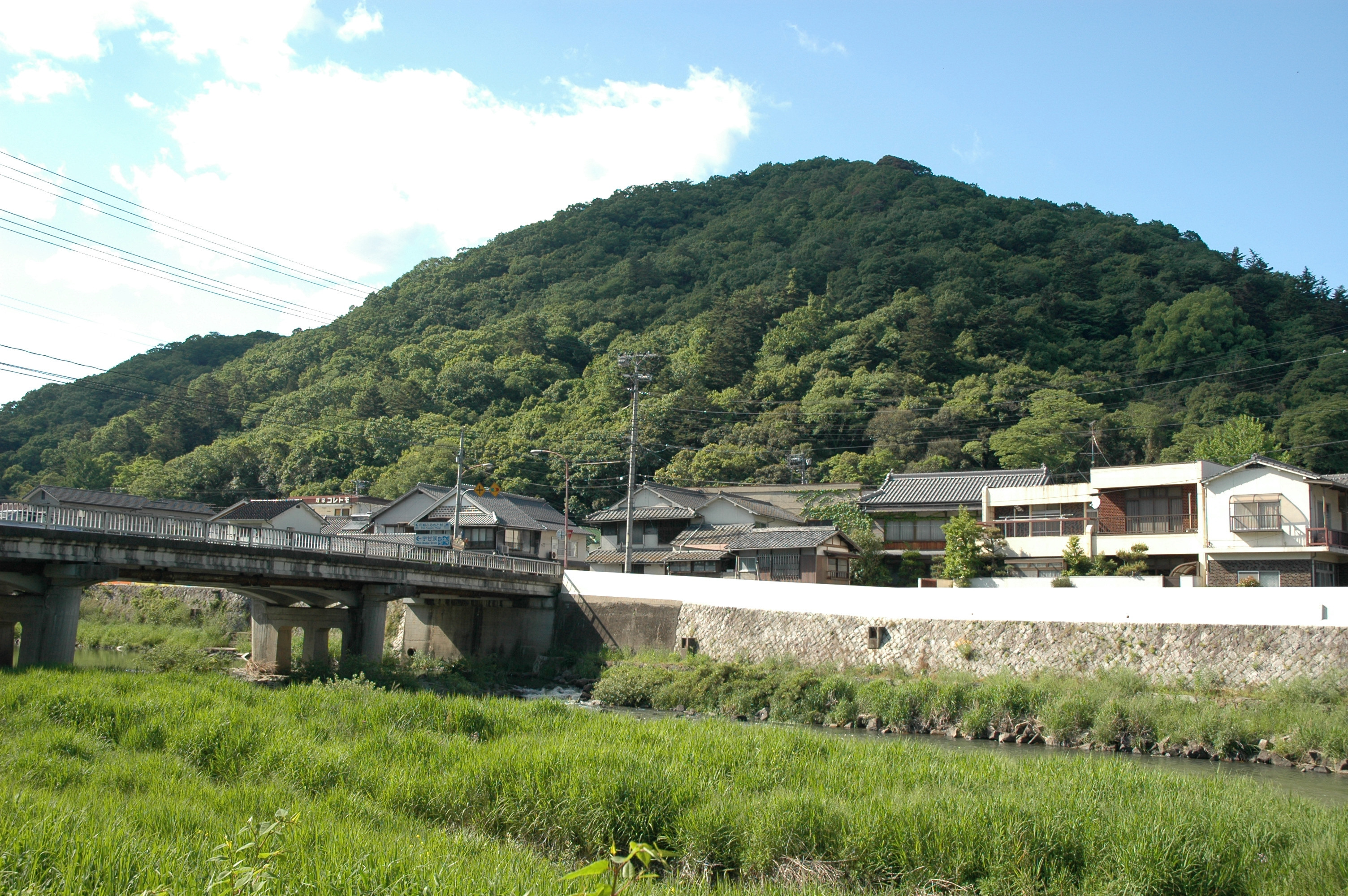 Kanagawa castle mountain